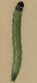 Stainton’s Natural History of the Tineina (1855–1873): Agonopterix subpropinquella